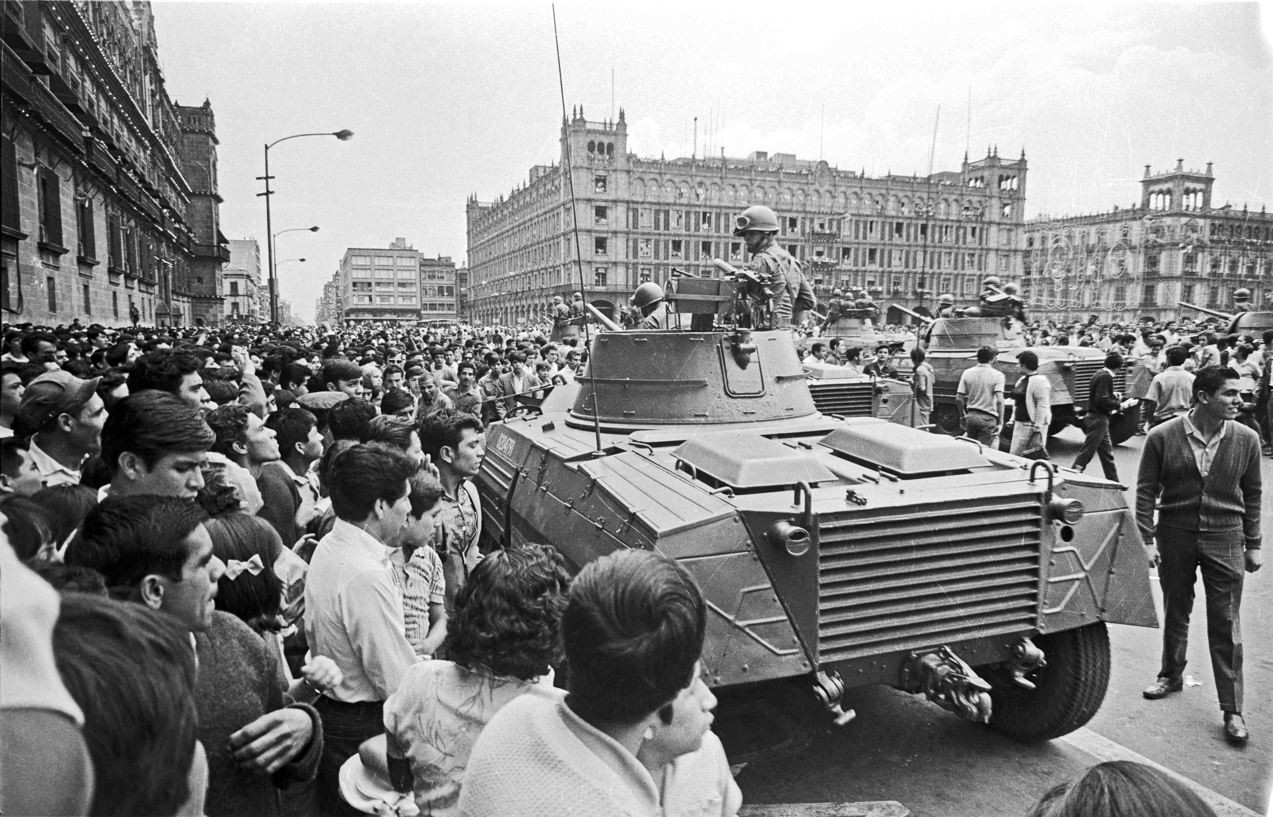 M8 Greyhounds at the "Zócalo" in Mexico City in 1968